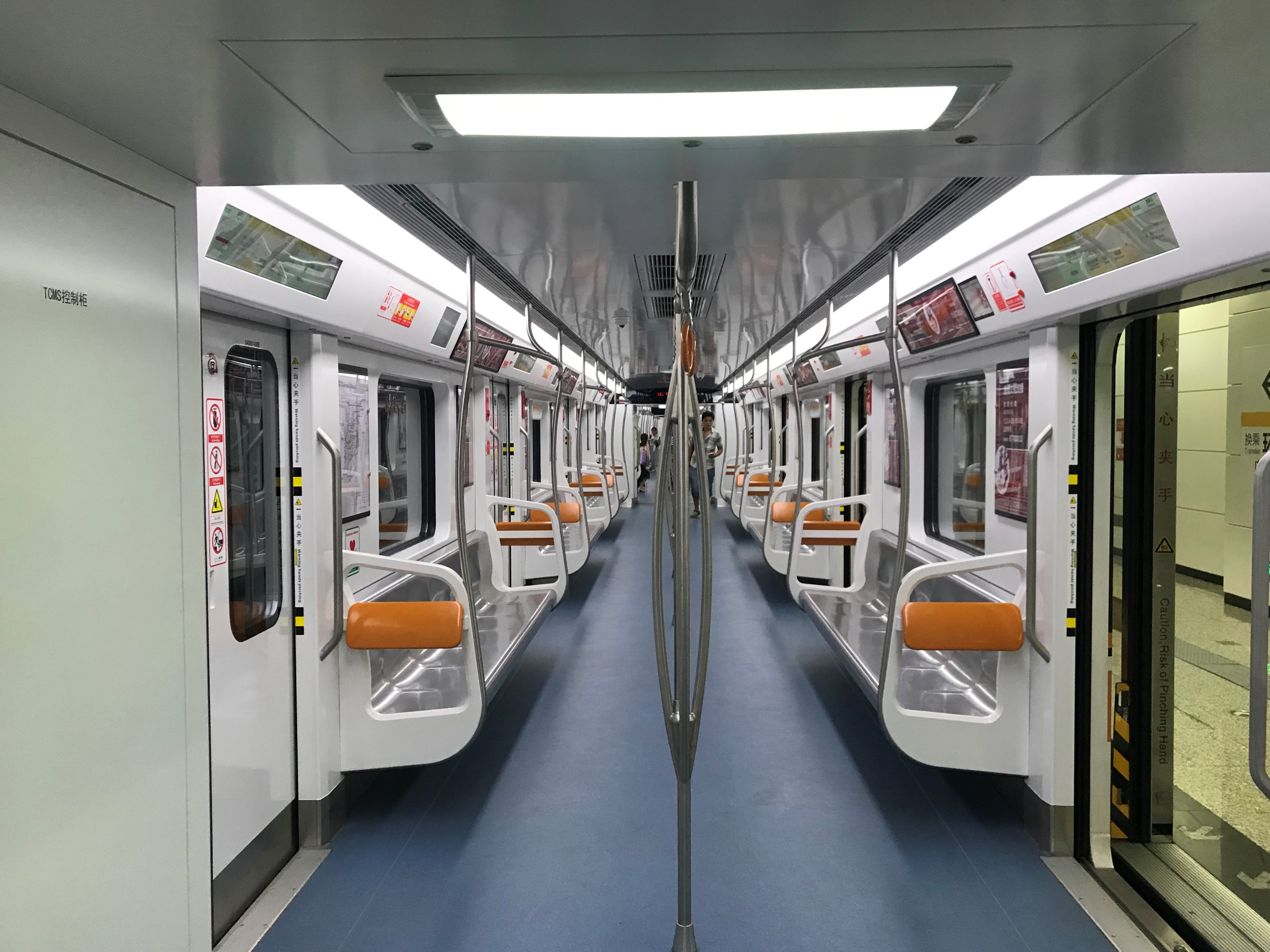 201908 CRT L4 Train Interior